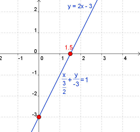 stright line equation in alternative form